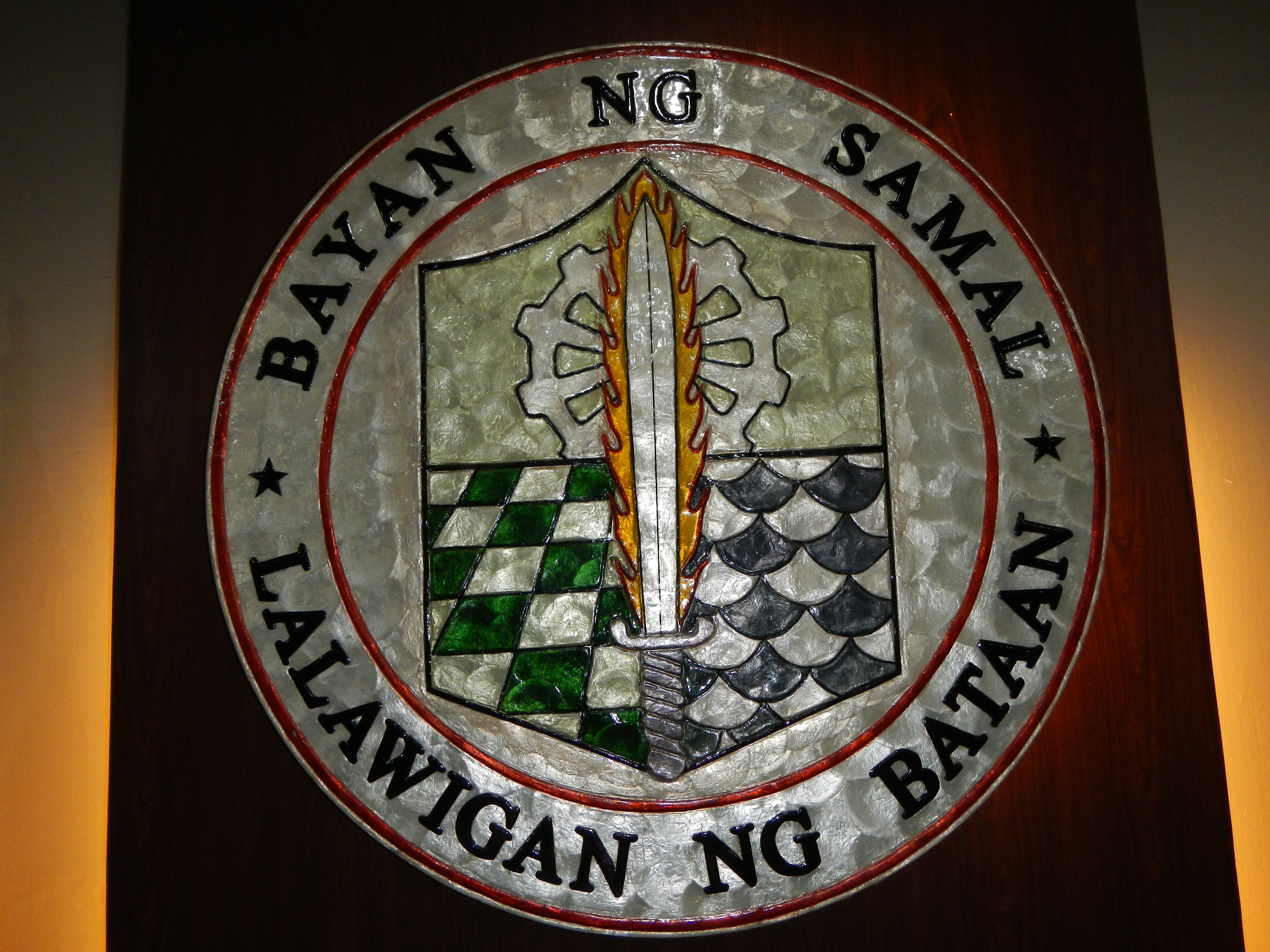 Samal, Bataan[1][2]Eastern side of Bataan, Samal is bounded by the municipalities of Orani, Abucay, Mt. Natib and Manila Bay. Its total population is 45,677 with main products: palay, corn, vegetable, fruits, rootcrops, coffee and cutflowers, livestock, poultry and aquatic resources such as shellfish, crabs, prawns, shrimps and different species of fish. Coordinates: 14°46'3"N 120°29'8"E[3][4][5]